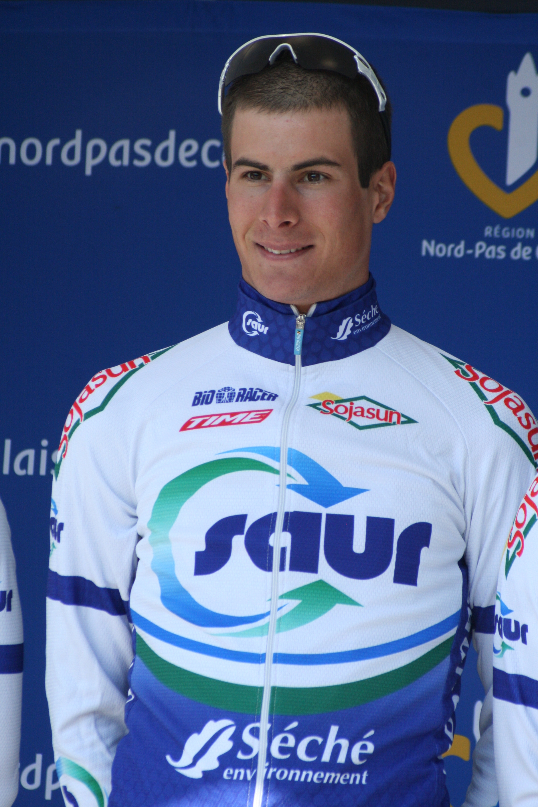 Jean-Lou Paiani